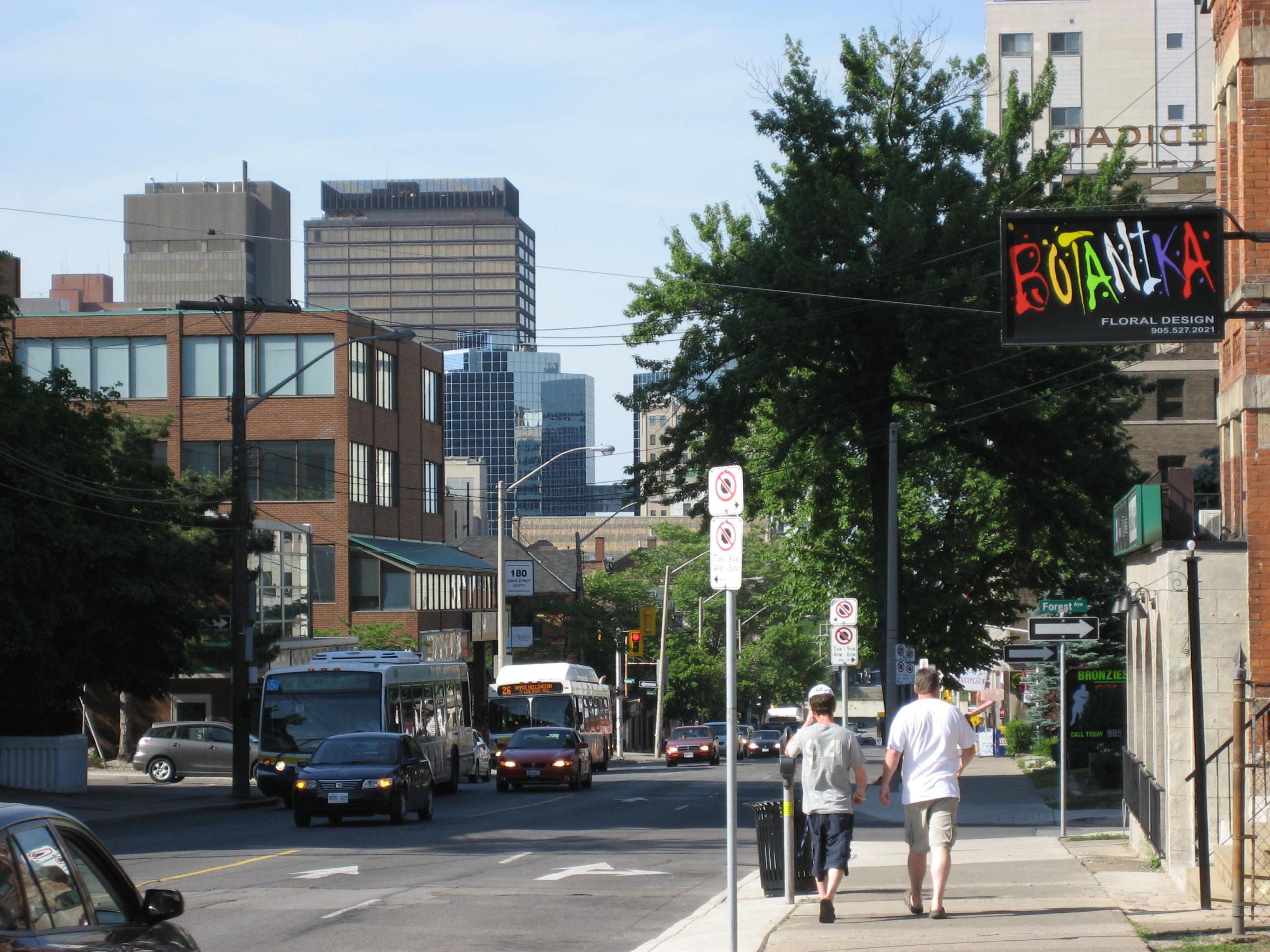 James Street South, street life, downtown Hamilton, Ontario